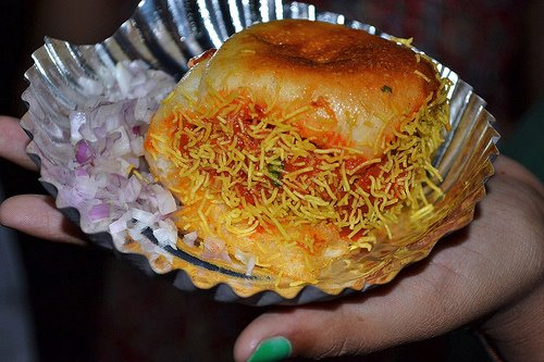 This is a picture of a popular Gujarati street snack called Dabeli.